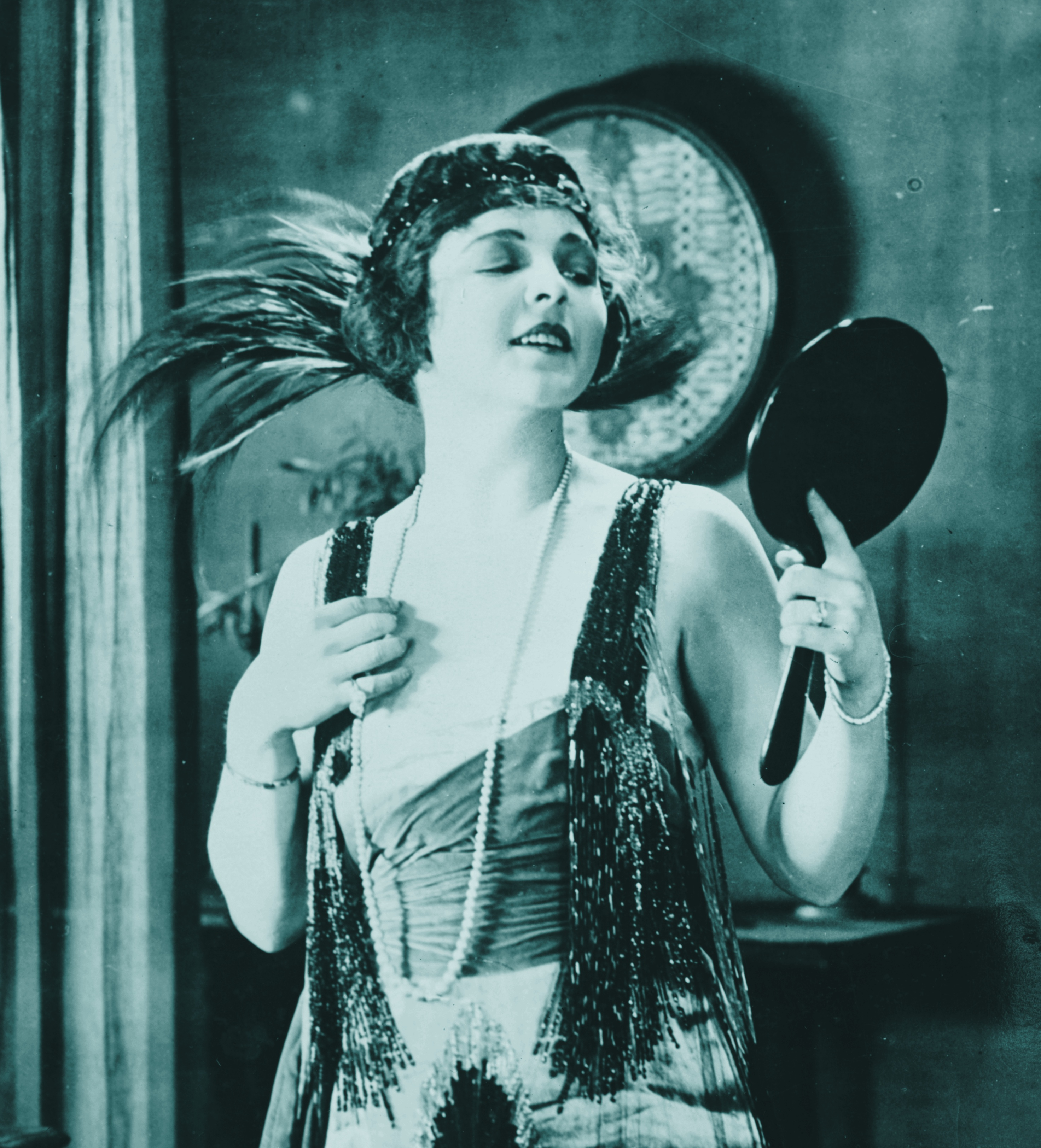 Lucy Cotton, standing up in a dress. (Cropped to focus in on subject.)